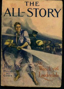 Scan of cover of The All-Story magazine.